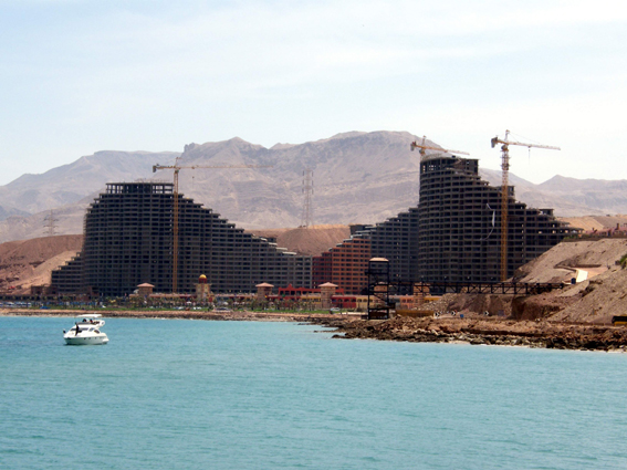 Ataqah, Suez Governorate, Egypt